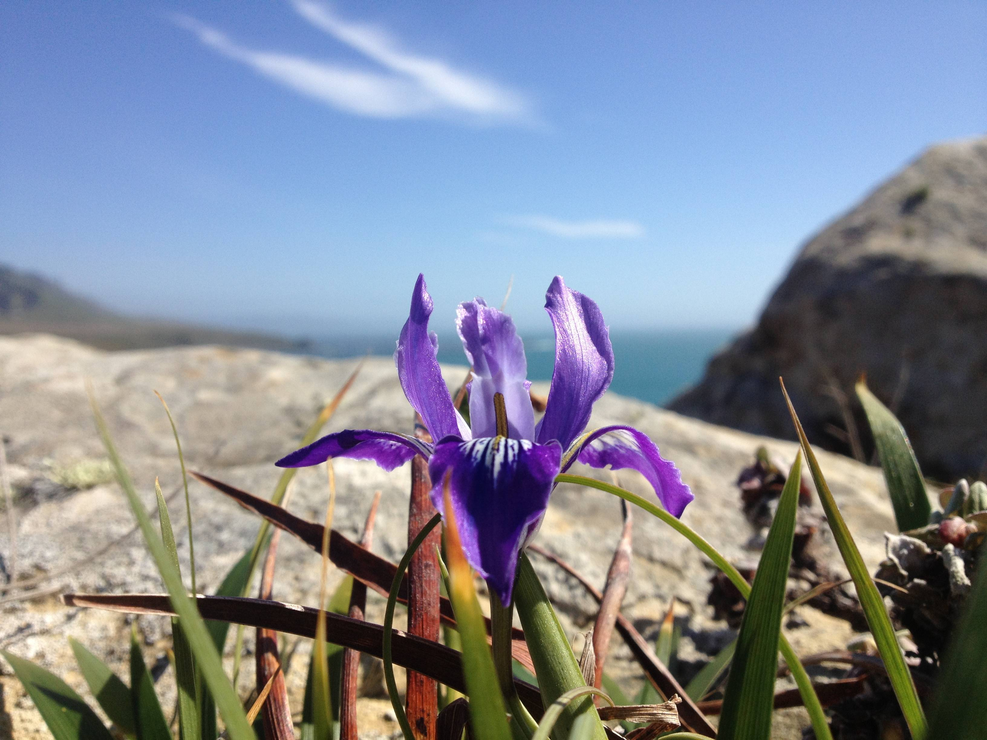 A Douglas Iris growing near the California coast, at Fort Ross State Historic Park